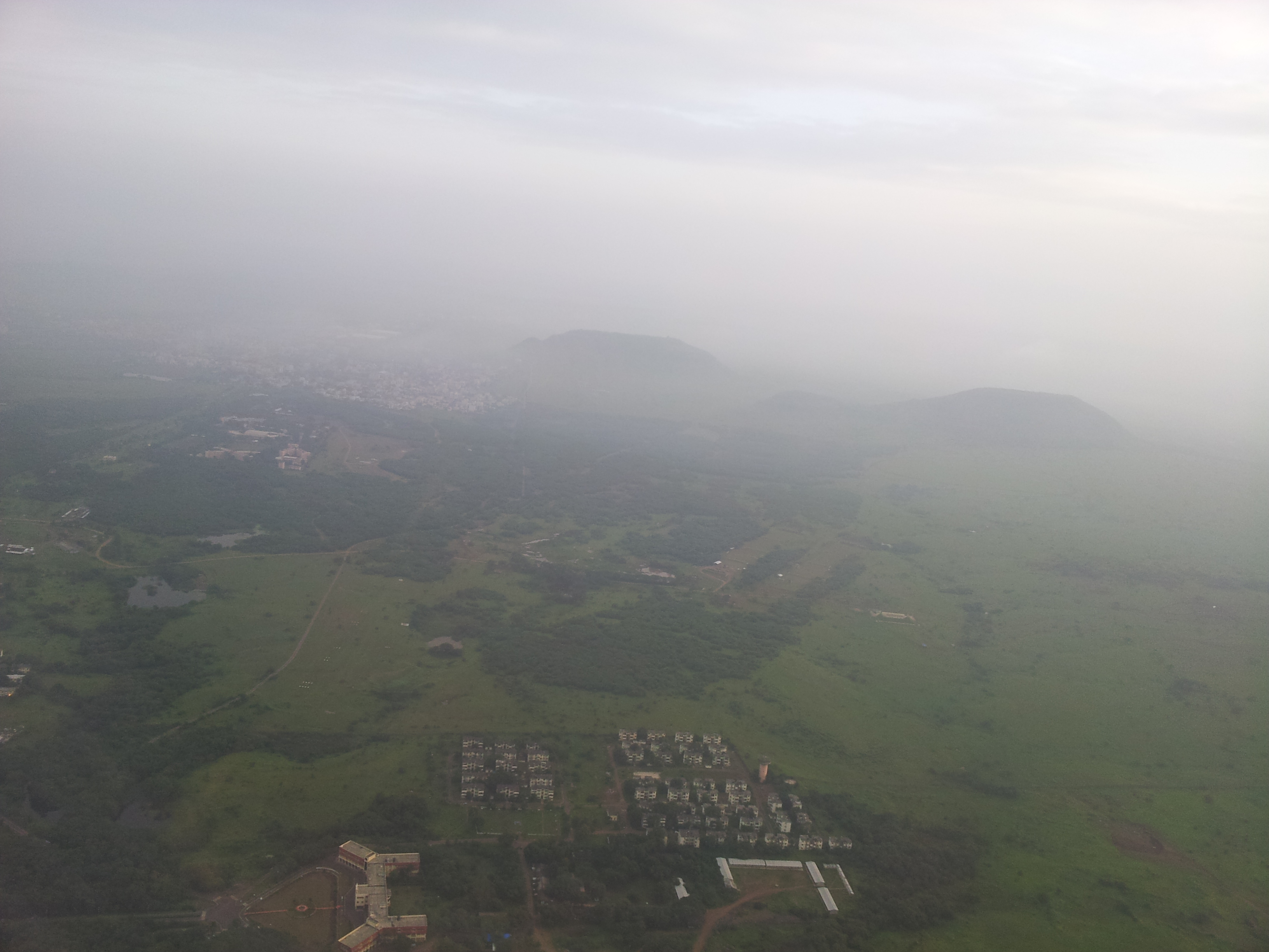 Skyview near Pune Airport